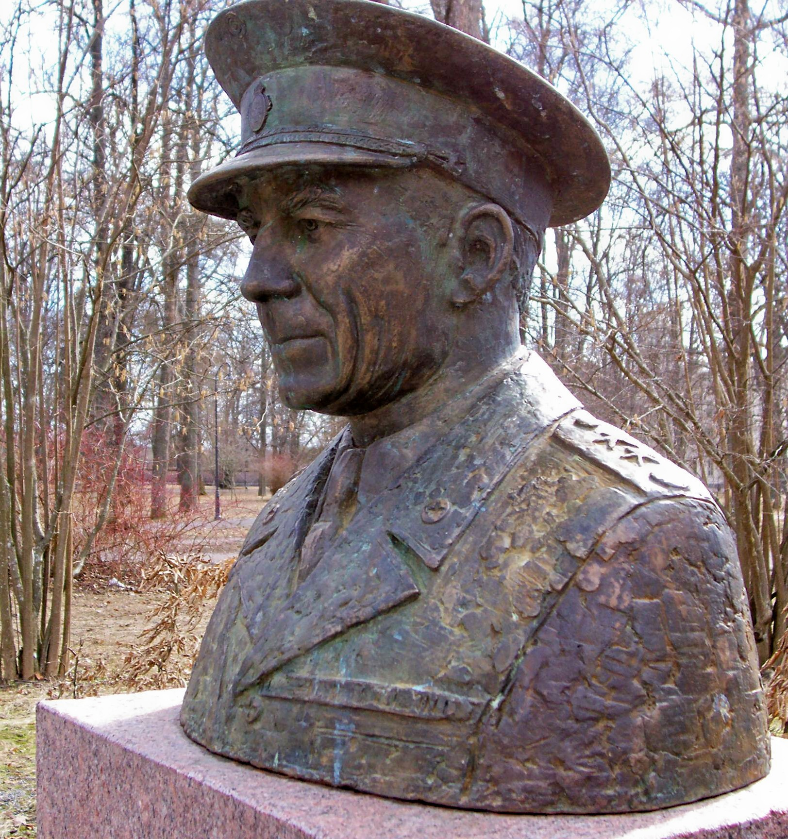 Bust of Count Folke Bernadotte in Engelska Parken in Uppsala. The inscription reads: "Folke Bernadotte, Greve af Wisborg, 1895-1948, Skulpterad av Solveyg W. Schafferer 1997."